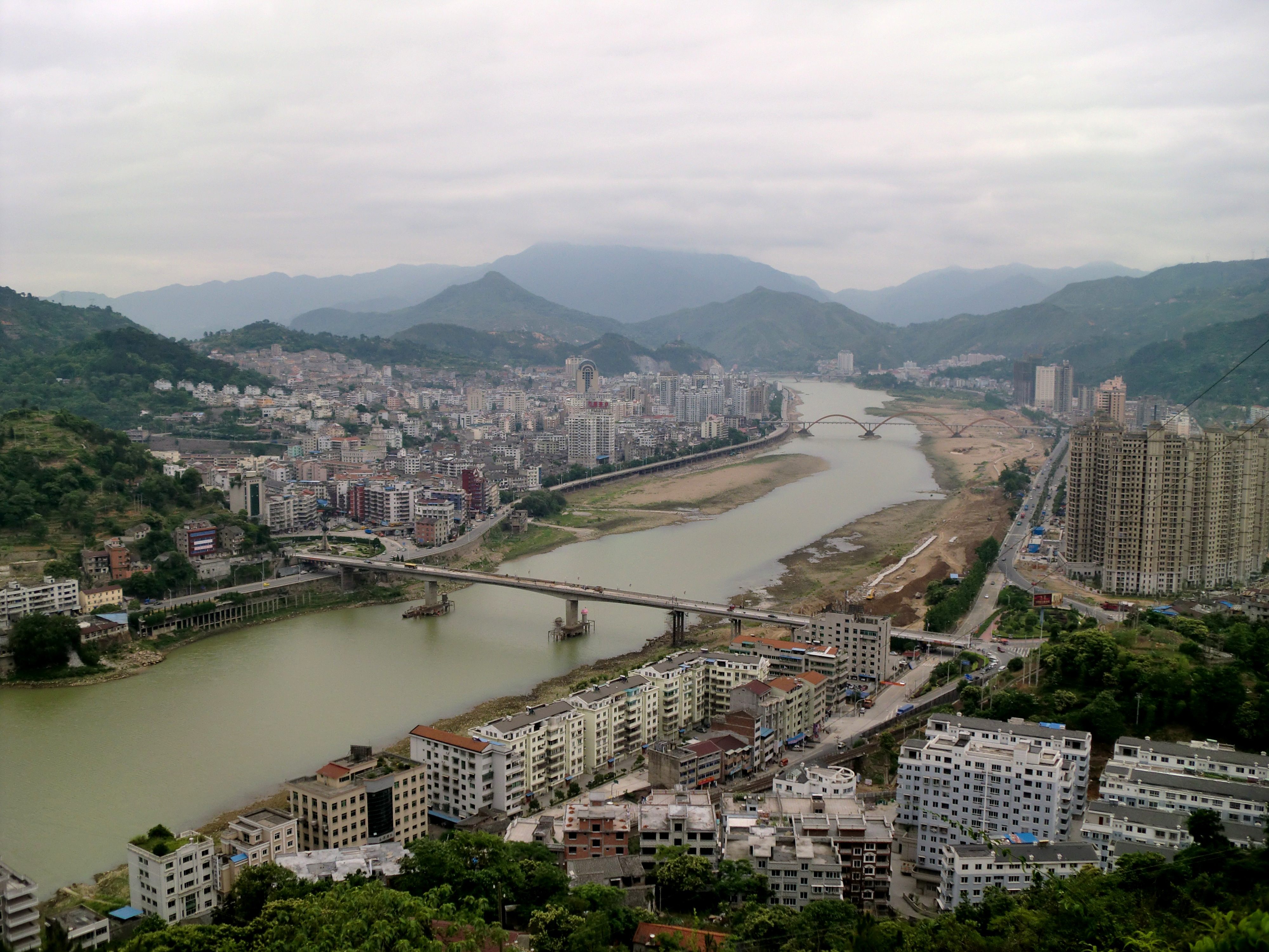 Hecheng / Qingtian City, seen from the north-west, looking downriver.